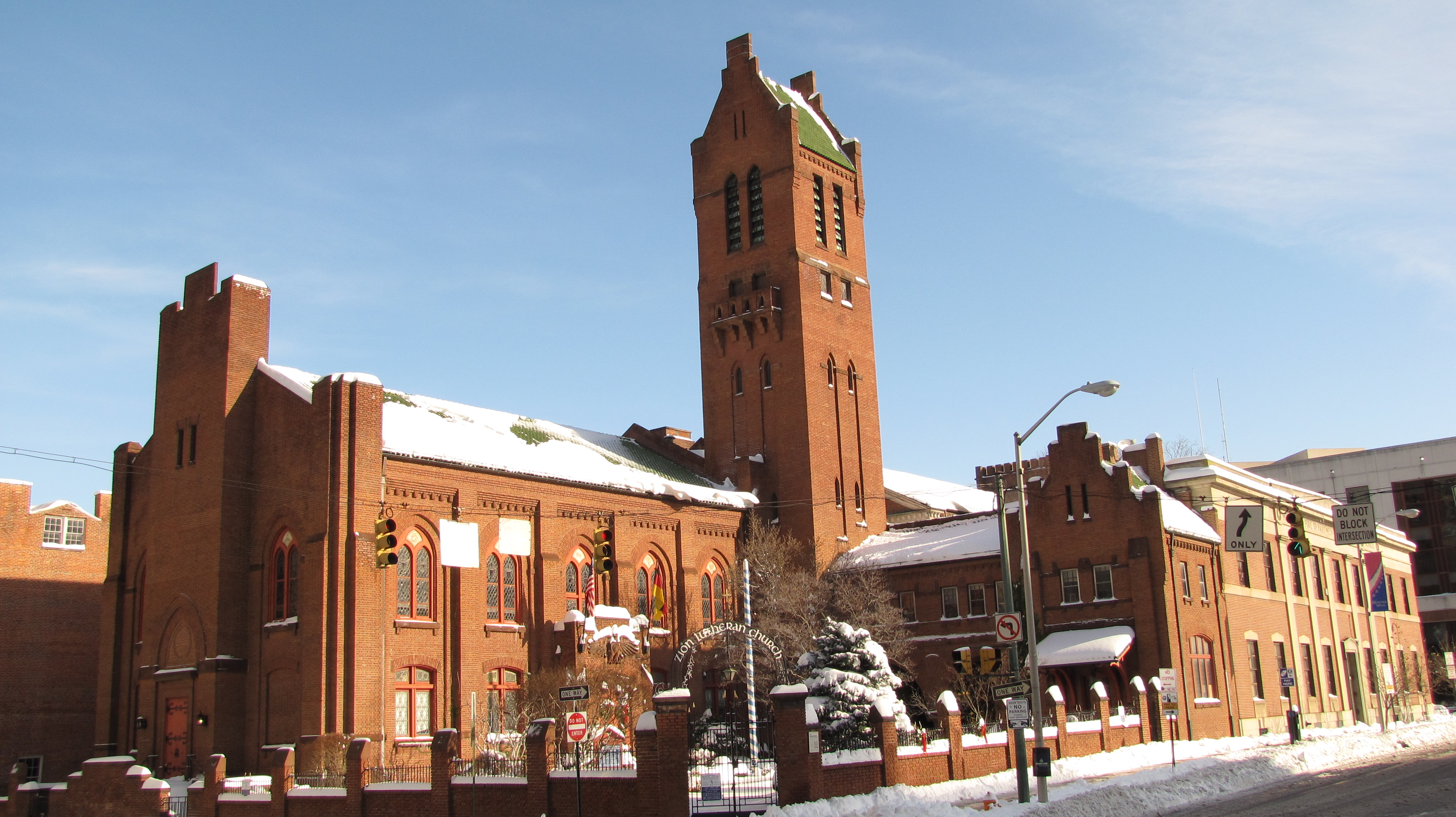 View from City Hall of 400 block of E. Lexington St.: Zion Church of the City of Baltimore and old Fire Department Headquarters in the snow